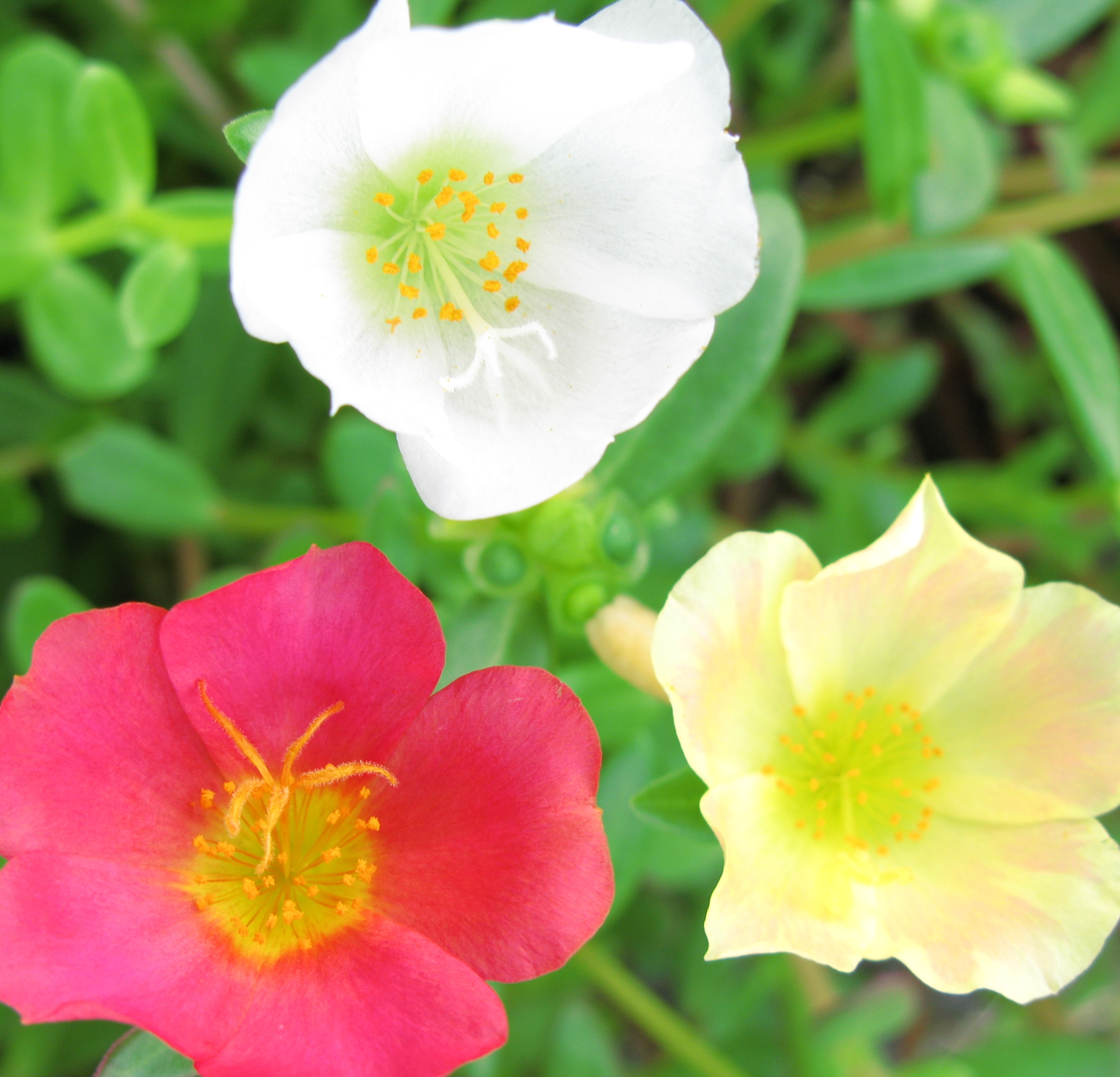 Glover Garden, Nagasaki city Nagasaki-ken (Prefecture), Japan – 長崎市 グラバー園 ♪ 赤、白、黄色、、、